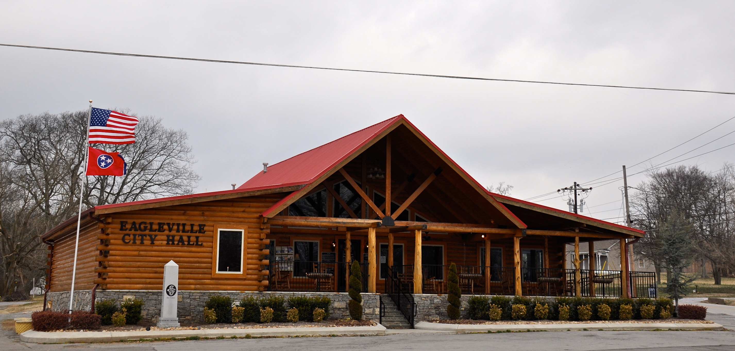 Located at Eagleville, Tennessee